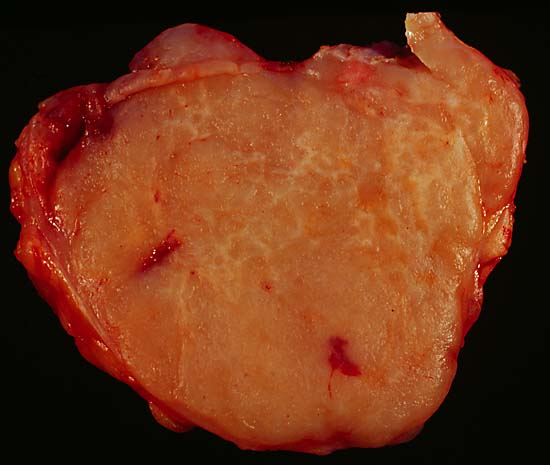 Non-Hodgkin's Lymphoma This elderly woman had carried a diagnosis of low-grade lymphoma since 1989. She had responded well to therapy and had been free of clinical evidence of lymphoma until spring, 2000, when she presented with this inguinal mass. Because she had developed a second cancer (breast) in the interim, the question arose as to which (if either) cancer had recurred. The clinicians opted for an excisional biopsy of the mass. The specimen was 6 cm in greatest diameter, soft and fleshy. A quick touch prep showed that it was a lymphoma, and fresh tissue was sent for surface marker characterization by flow cytometry. The tumor cells (which were gated in the "medium" and "large" areas of the cytogram) marked as B cells with light chain restriction. The cytologic features indicated a high-grade proliferation with a high mitotic rate, although there was some debate as to whether it was a large- or small-cell follicular cell lymphoma (it surprises those outside the field that such a basic question as cell size can be so controversial!) Ultimately, my diagnosis was malignant lymphoma, high grade B cell, not otherwise specified To illustrate the difference in color quality between different types of lighting, I shot the same frame under tungsten light (this picture) and window light (see Image:Malignant lymphoma, high grade B cell 2.jpg). Photograph by Ed Uthman, MD. Public domain. Posted 19 May 00